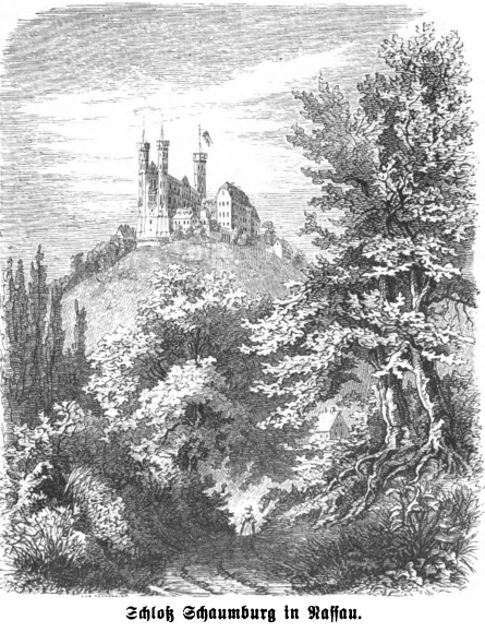 caption: "Schloß Schaumburg in Nassau."